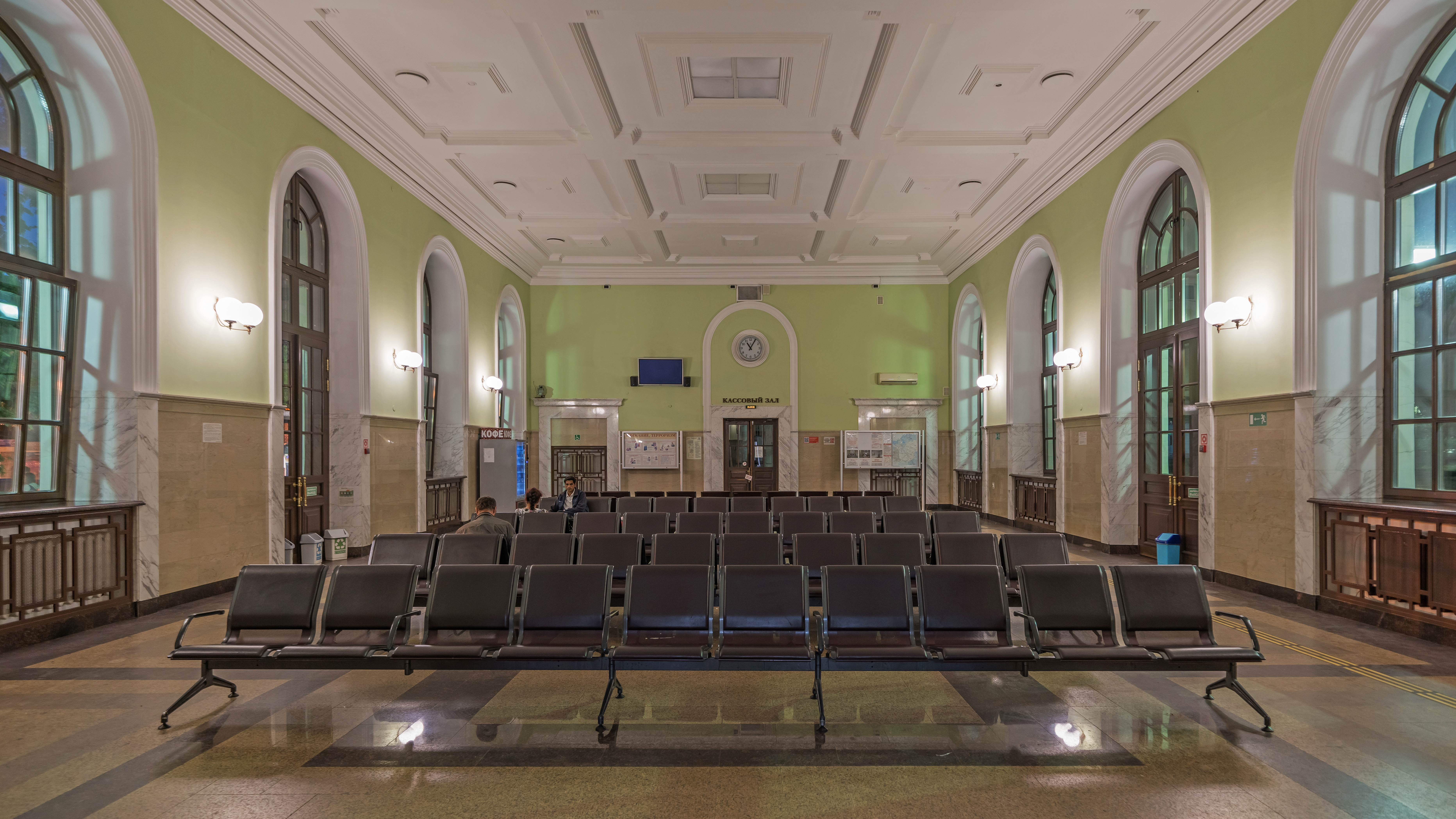 Interior of the railway station in Pskov, Russia